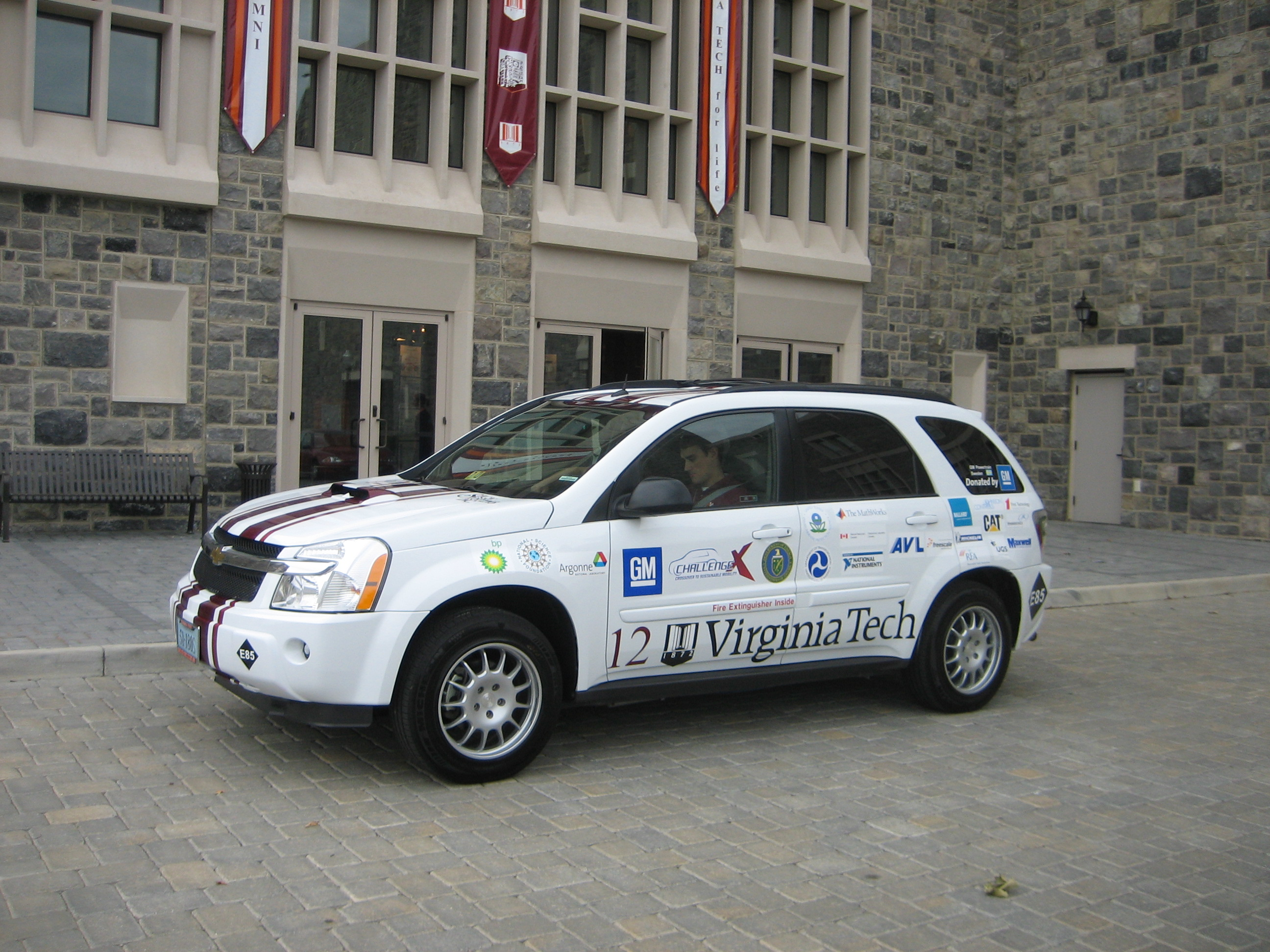 This is a picture of Virginia Tech’s Challenge X vehicle, the REVLSE outside the Holtzman Alumni Center at Virginia Tech. The picture was taken at the 2006 Deans' Energy Forum on October 16. Category:Images of automobiles